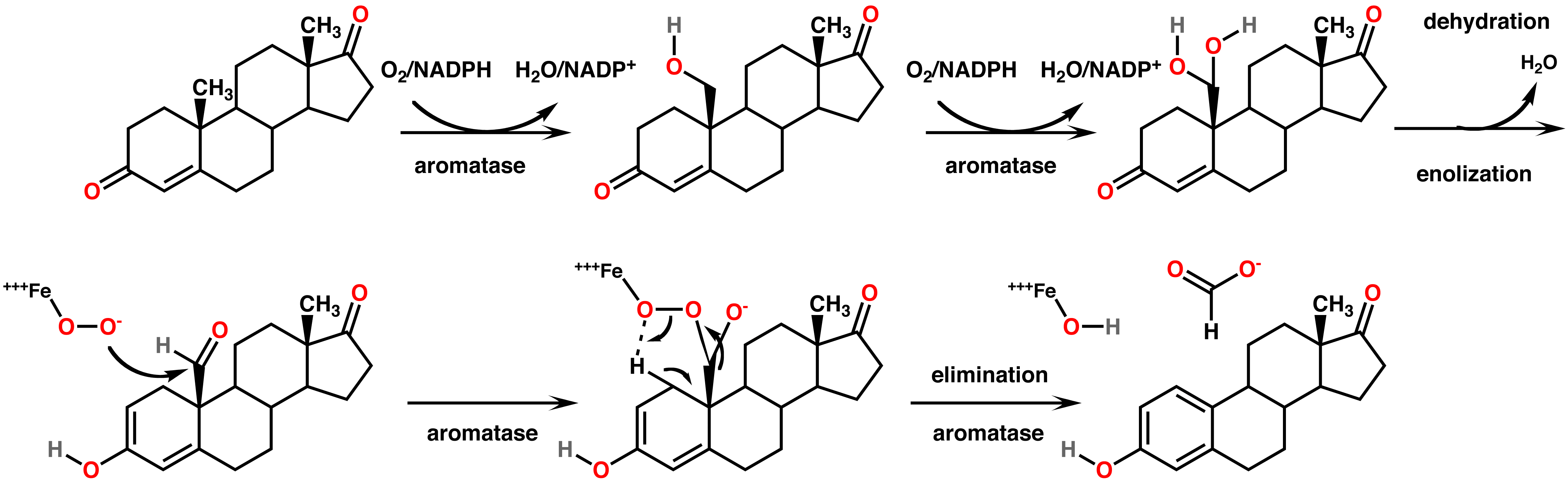 Mechanism of reaction catalyzed by the aromatase enzyme.